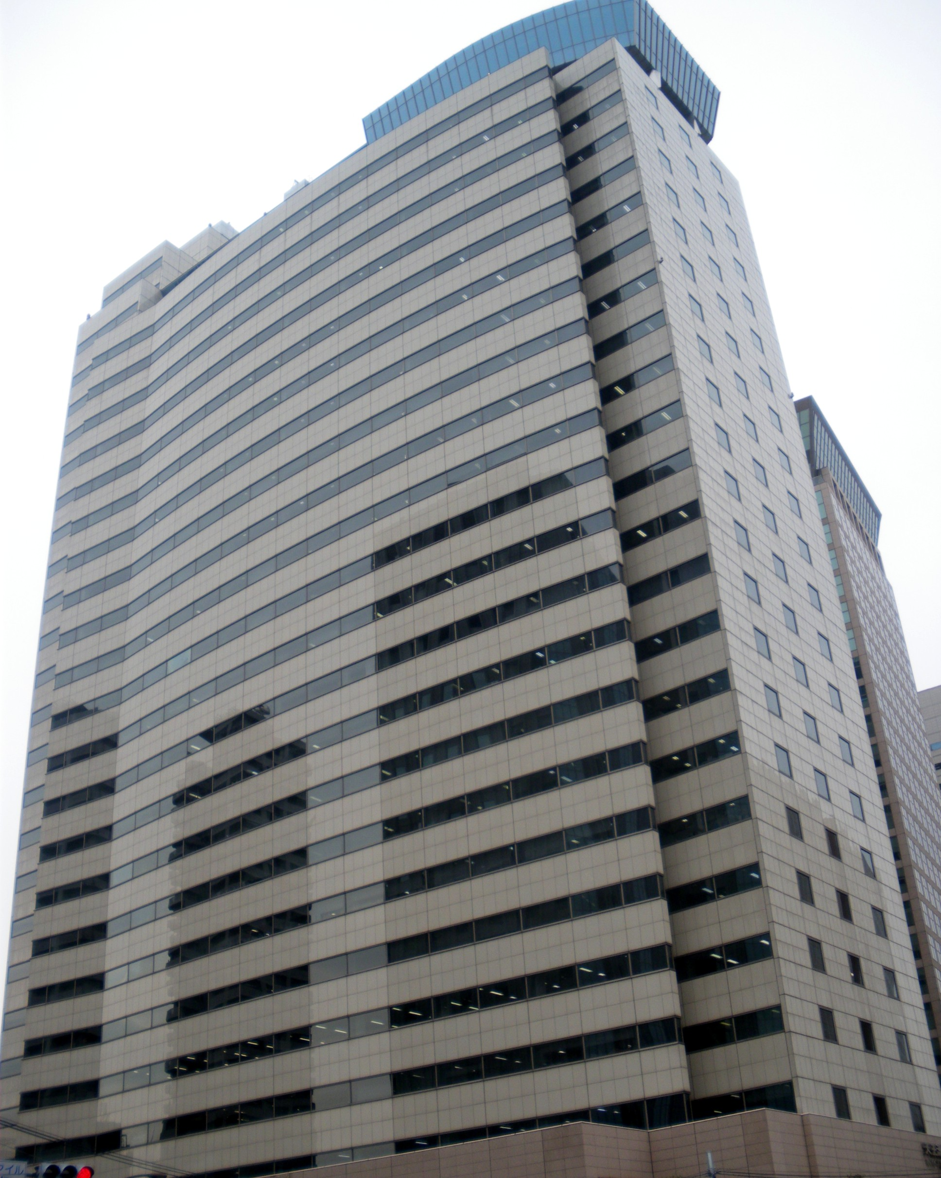 A photo of Tennouzu Yusen Building.Higashishinagawa,Shinagawa-ku,Tokyo,Japan.